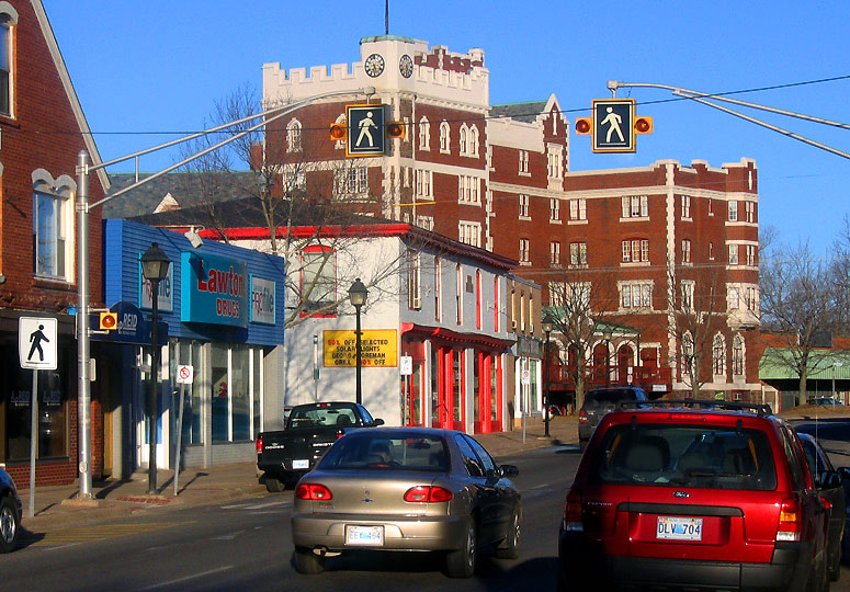 The old Cornwallis Inn on Mainstreet, Kentville, NS, originally called the Aberdeen Hotel. It now contains private apartments, offices and retailers.